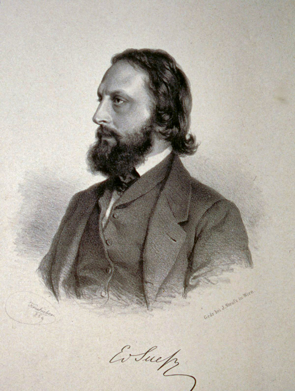 Eduard Suess (1831–1914), lithograph by Josef Kriehuber (1800–1876) c. 1869